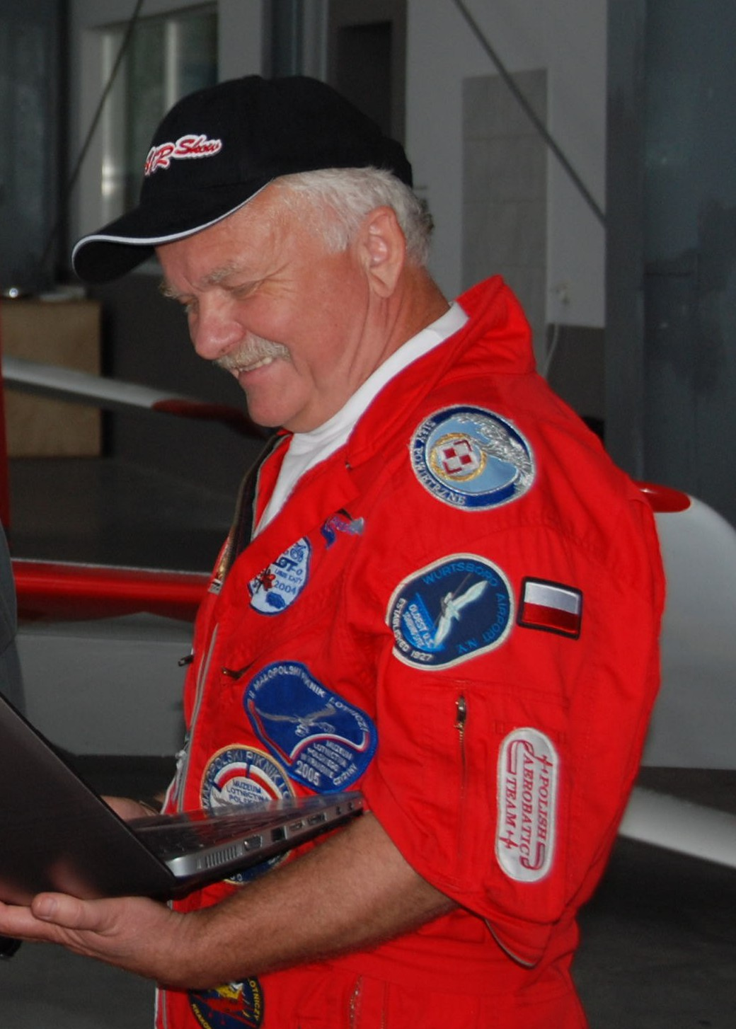 Marek Szufa (Poland) - aerobatic pilot during II Zamosc Air Picnic